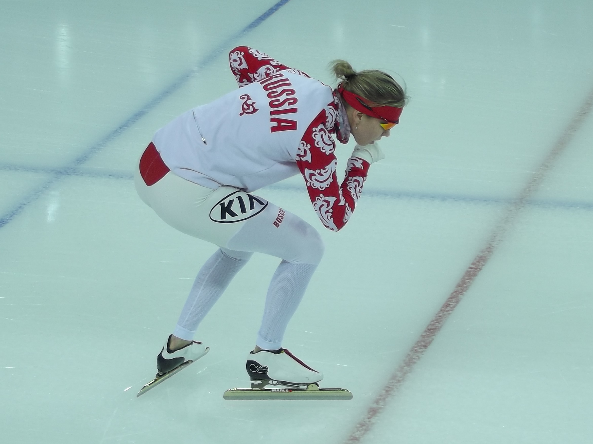 2013 World Single Distance Speed Skating Championships